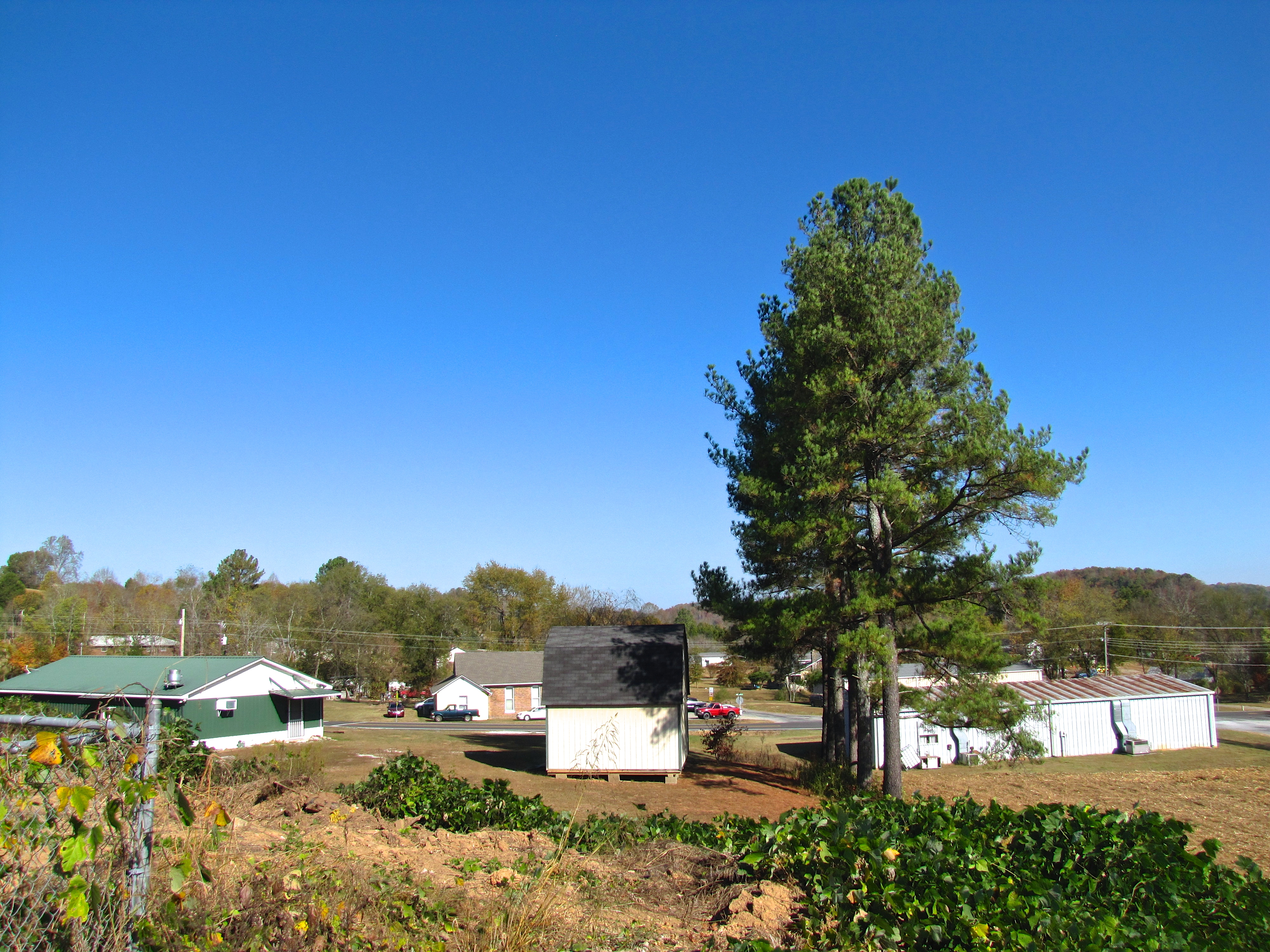 Buildings in Iron City, Tennessee, United States.